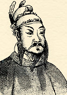 Hung-wu emperor of the Ming Dynasty